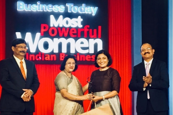 Apurva Purohit has been declared as one of the 'Most Powerful Women in Business’ by Business Today magazine. The award was presented by Ms Arundhati Bhattacharya, Former Chairman, State Bank of India and Mr. Raj Chengappa, Group Editorial Director, India Today Group